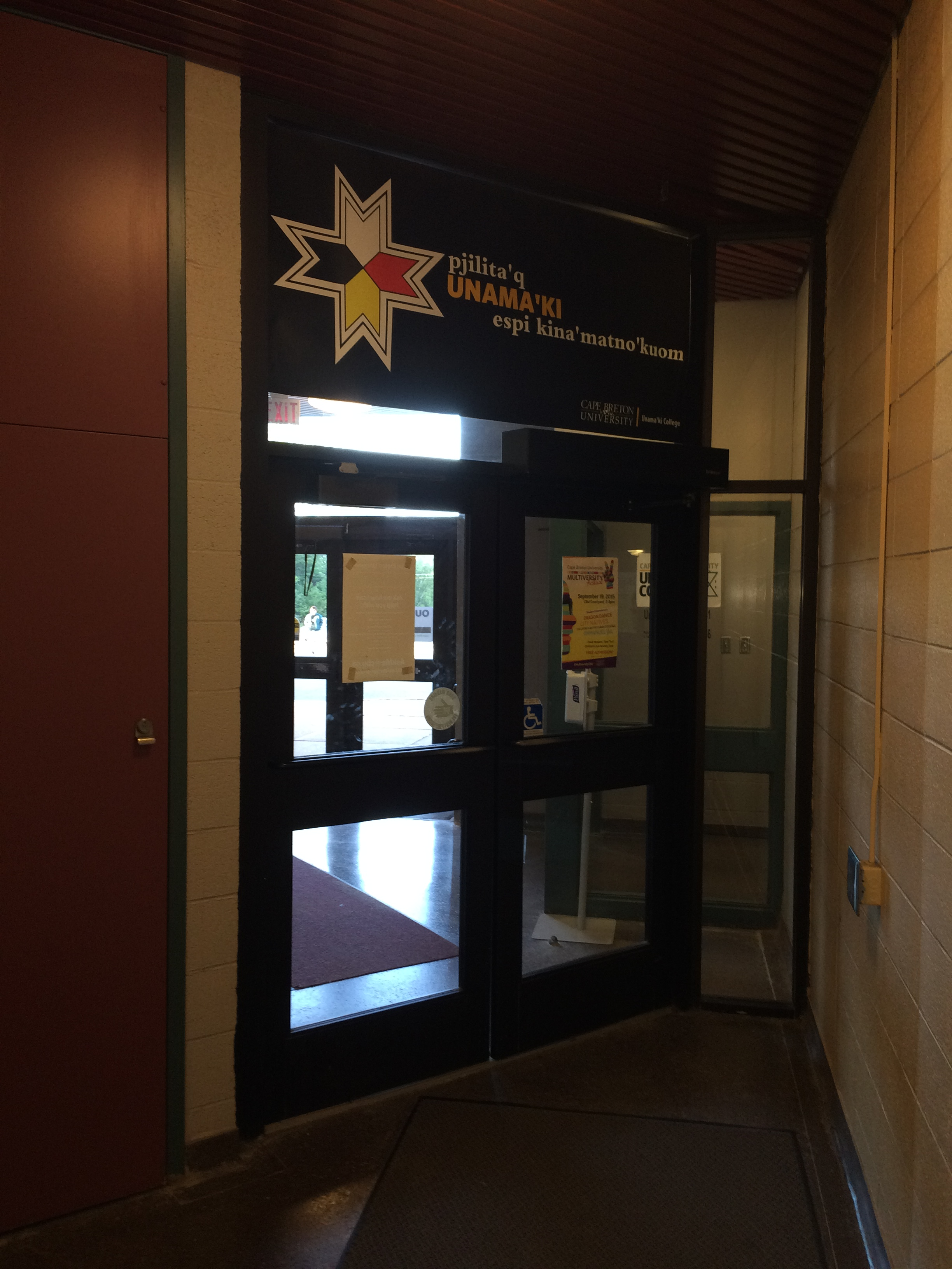 Entrance to the Unama'ki College.